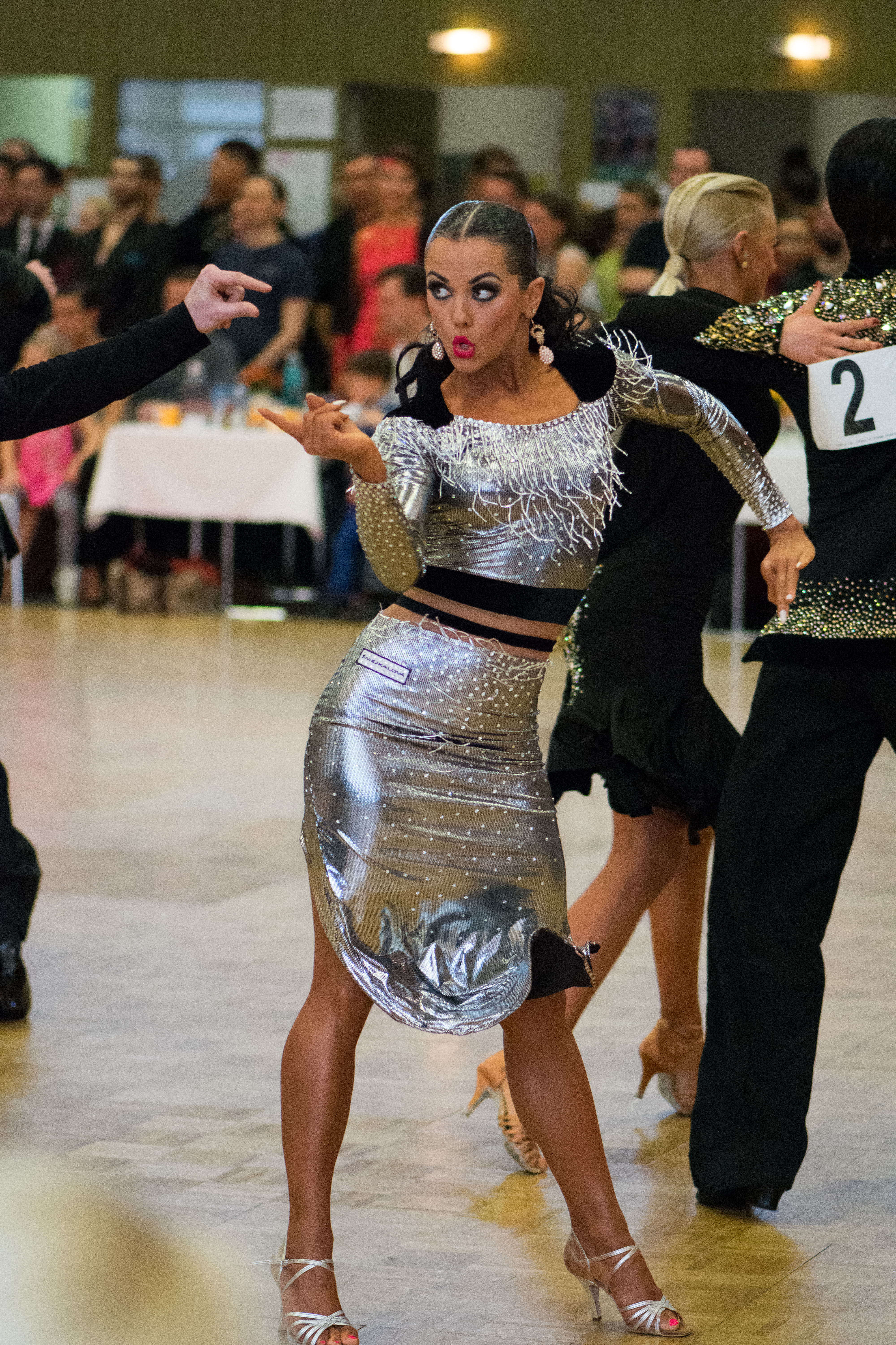 Blaues Band der Spree, latin competition 2016, Berlin, Germany